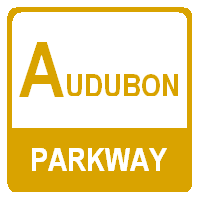 Audubon Parkway Shield